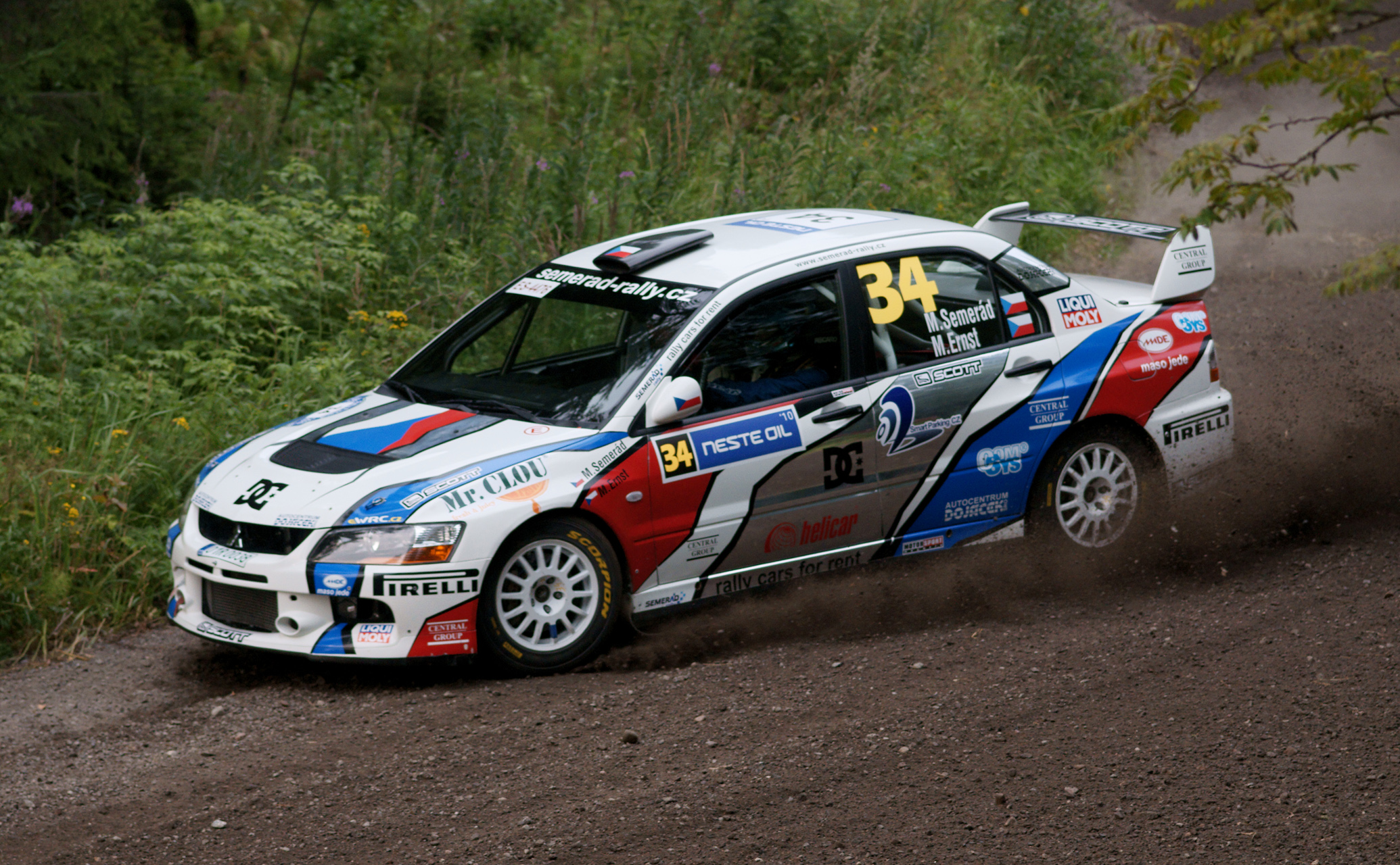 Martin Semerad driving at Laajavuori special stage, Rally Finland 2010.